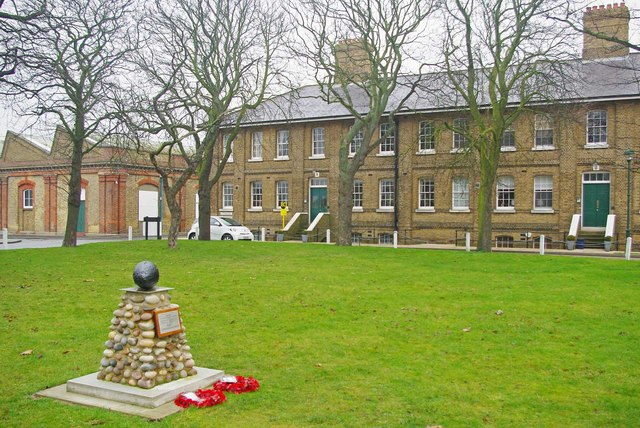 Gunners House & Memorial